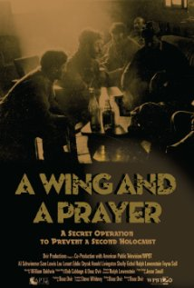 This is the poster that is meant to represent A Wing and a Prayer.